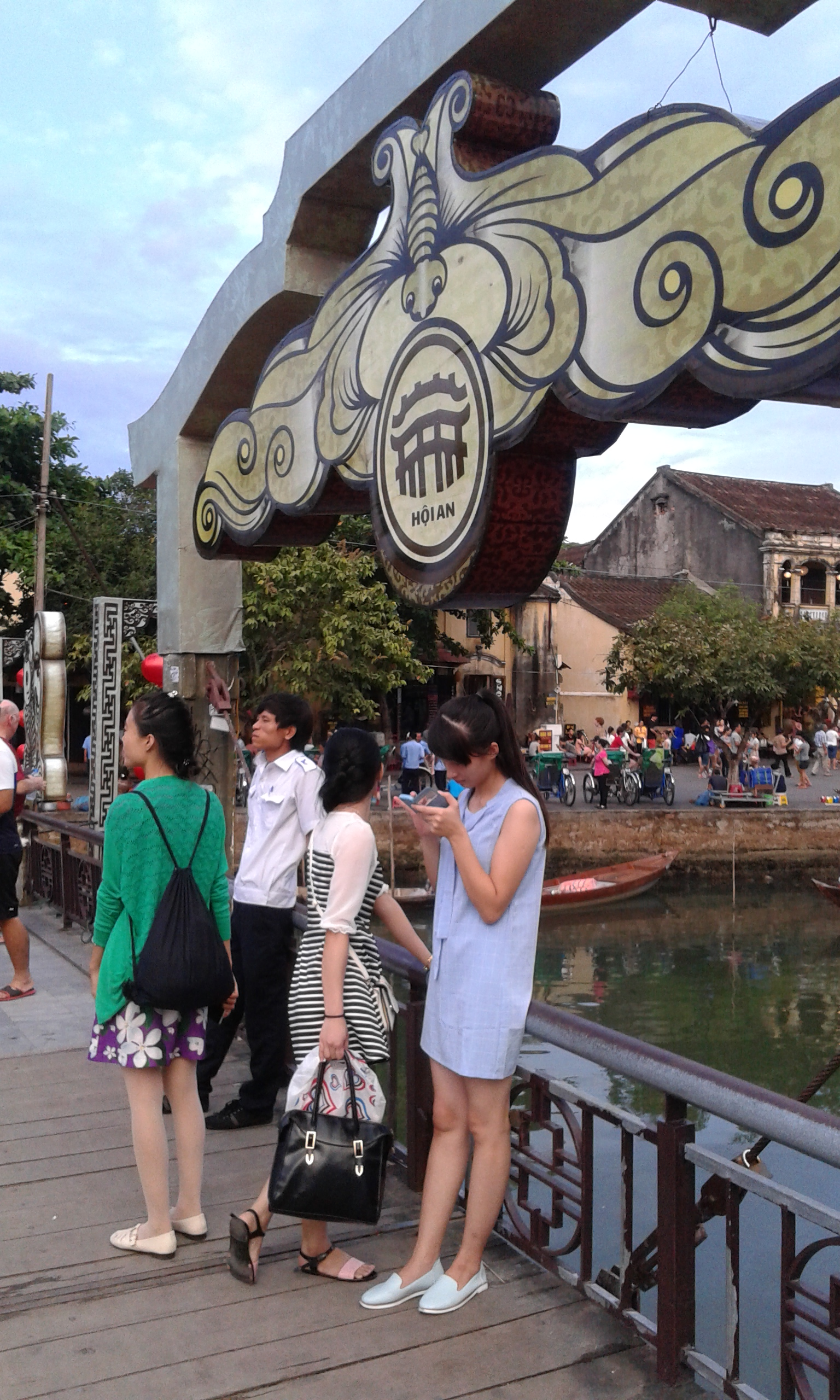 Hoi An in Vietnam